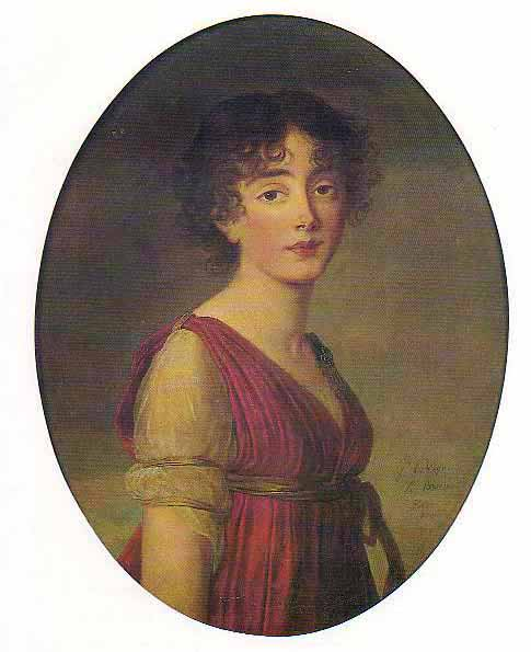 Princess Smolensky (1778-1845) was a daughter of the famous Field Marshall.